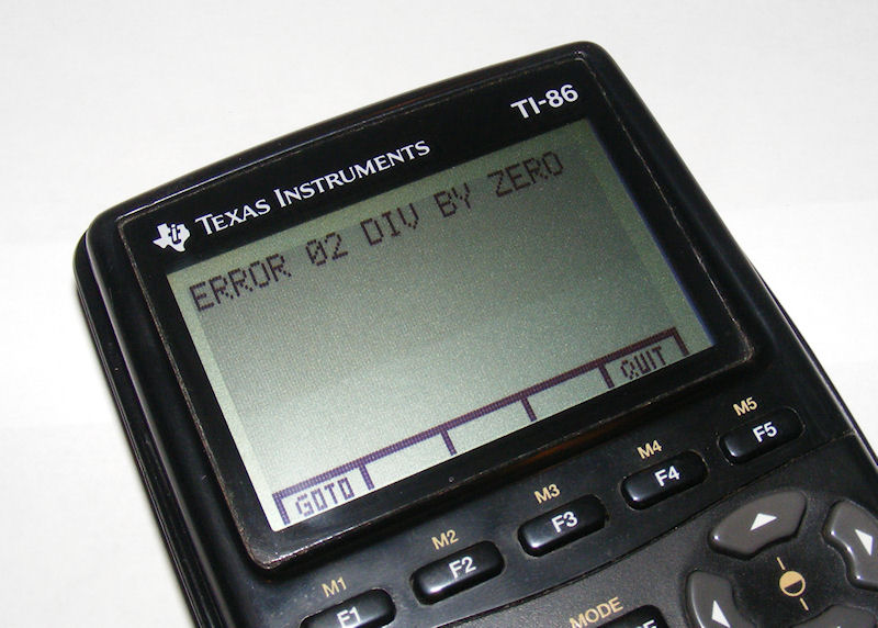 A Texas Instruments TI-86 graphing calculator displaying an error message, indicating that the user or a running program has attempted to divide by zero.